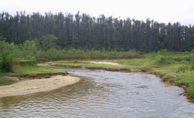 River Hemavati flowing at the southern side of Banakal town